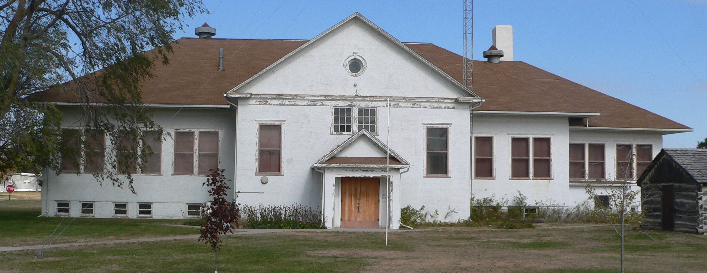 Former Keya Paha County High School in Springview, Nebraska; seen from the south. The building is now the Keya Paha County Historical Museum.